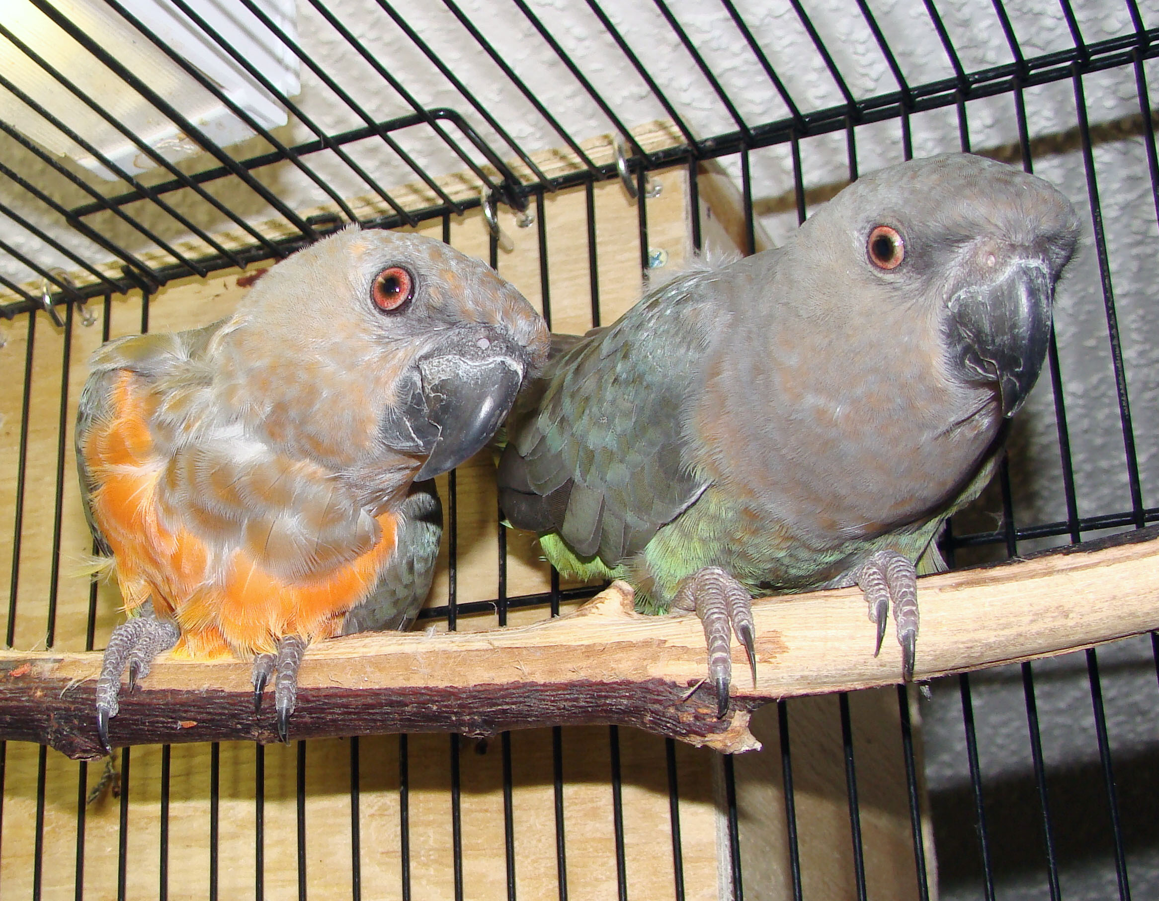 Mature breeding pair of Red-Bellied Parrots (Poicephalus rufiventris) on a perch in a cage. Picture taken by user:Fruitwerks at home.